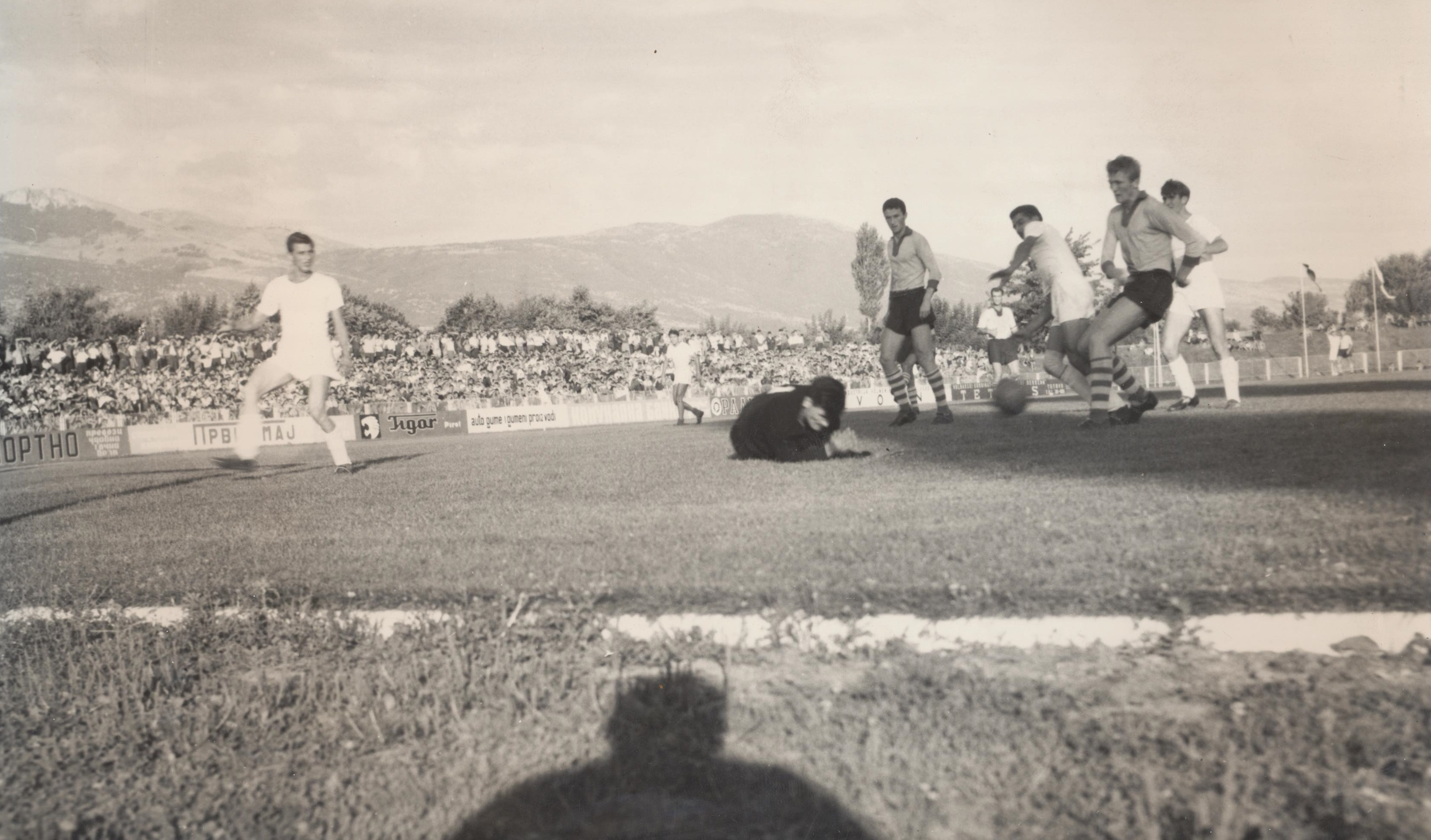 Football players FC Radnicki in 1963